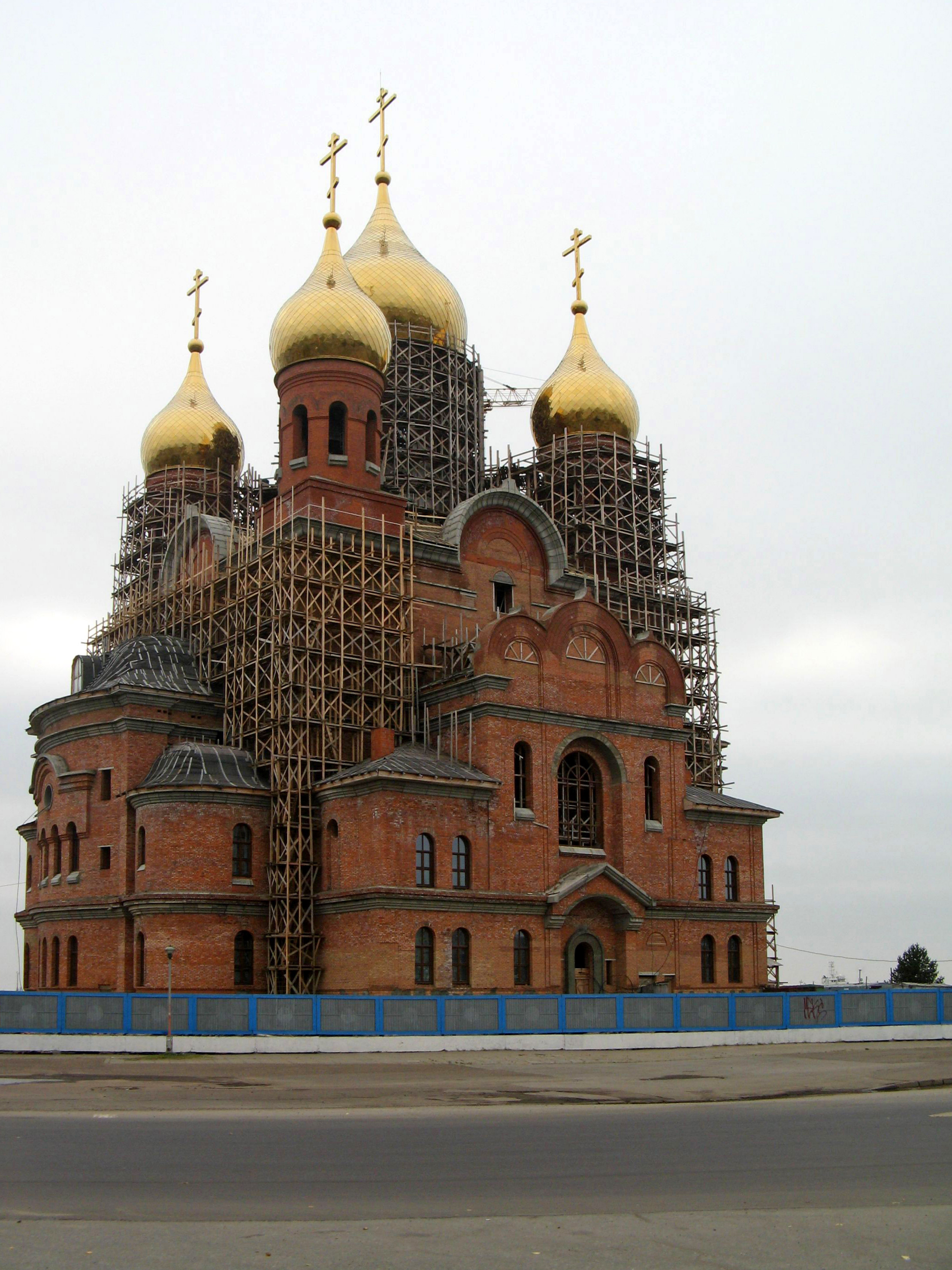 Saint Michael Archangel Cathedral (new) in Arkhangelsk